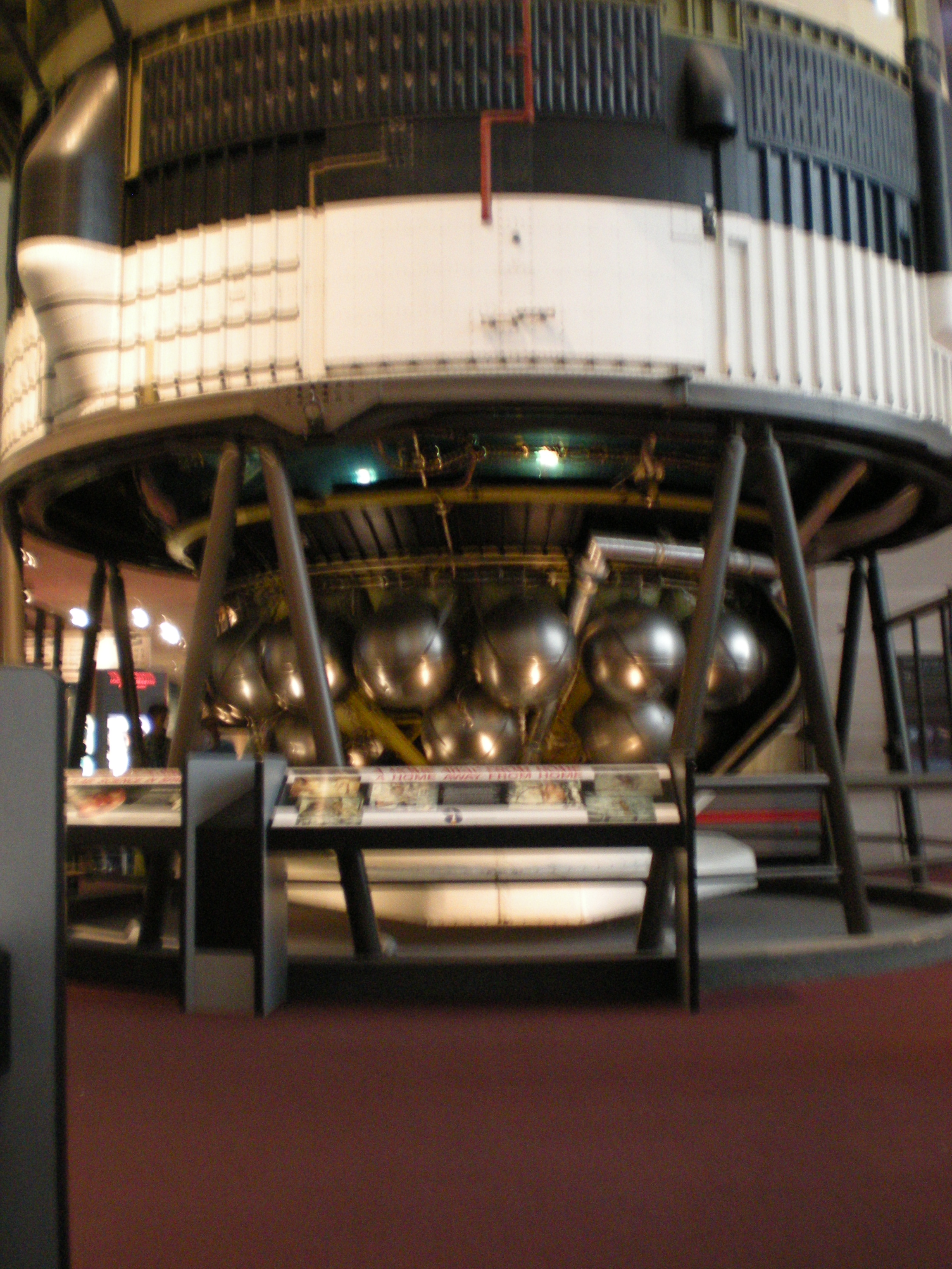 Base of Skylab B at the National Air and Space Museum.